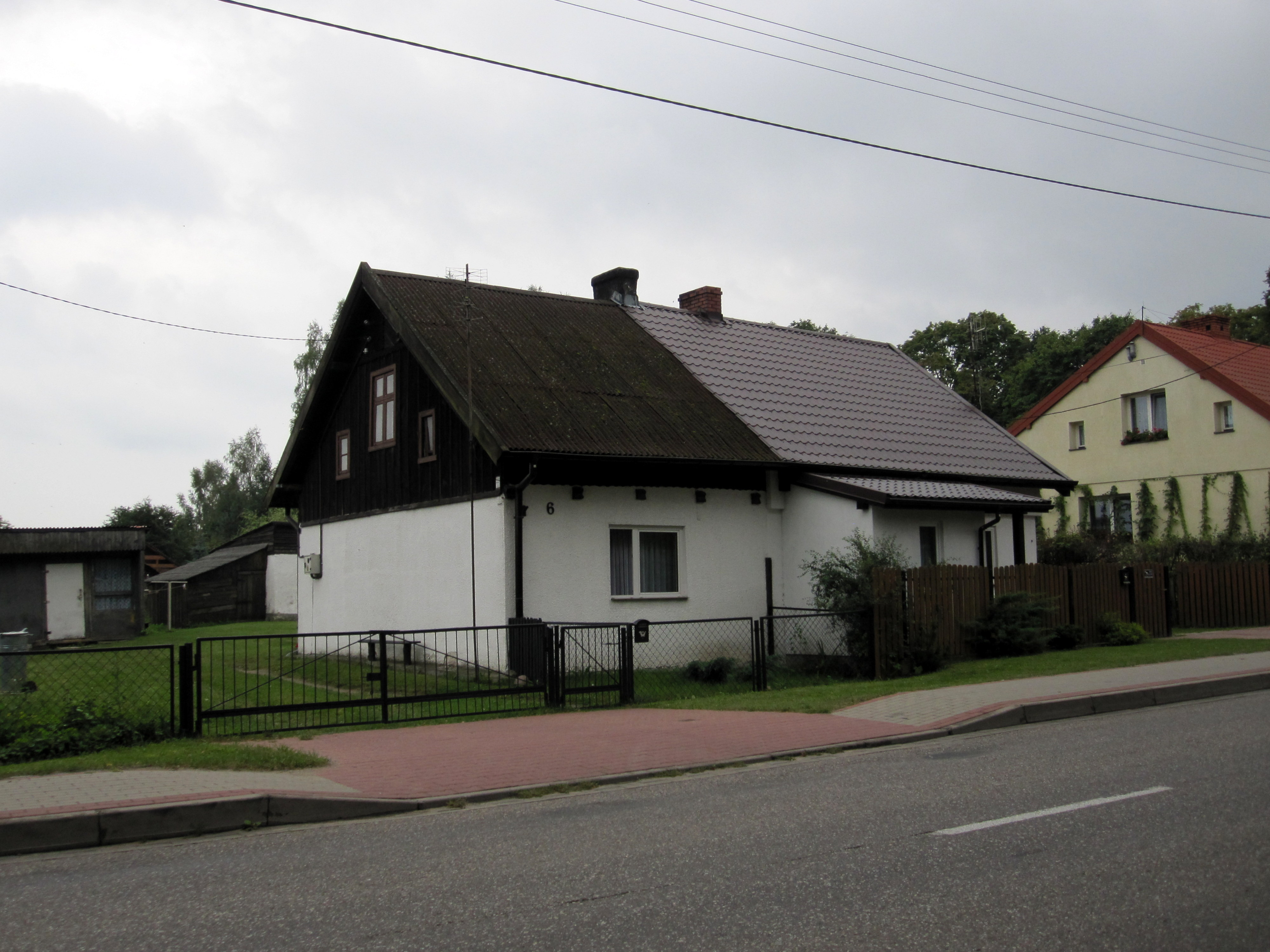 Jedwabno - building No 6 on 1 Maja street